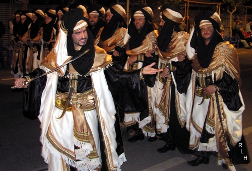 Photo of Moorish Costumes worn at El Campello Moros y Cristians festival